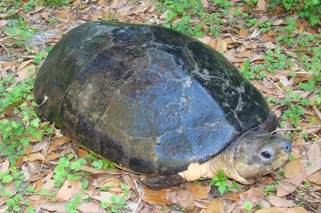 it is a turtle